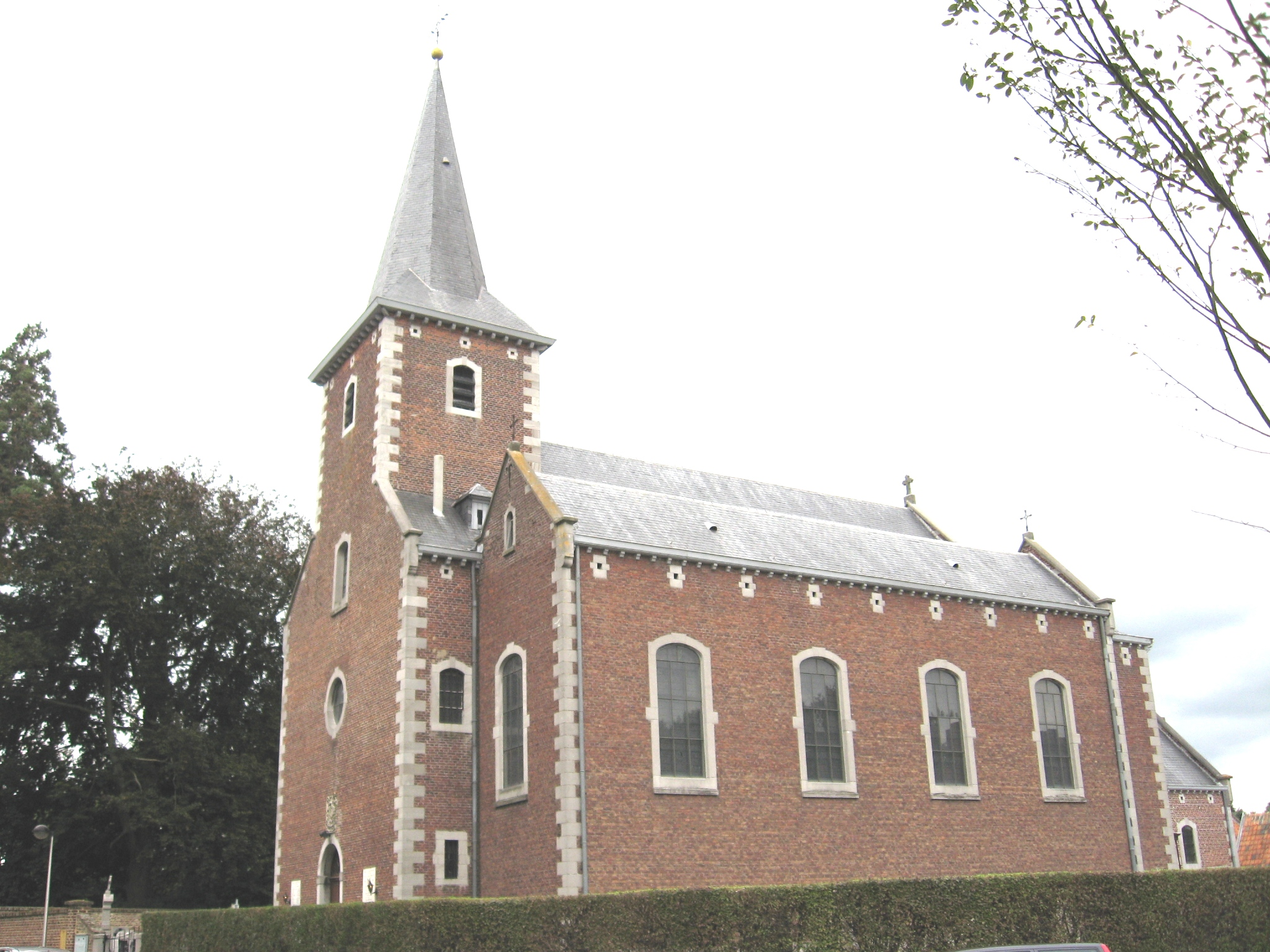 Church of Salvator Mundi in Sint-Truiden (Melveren), Limburg, Belgium